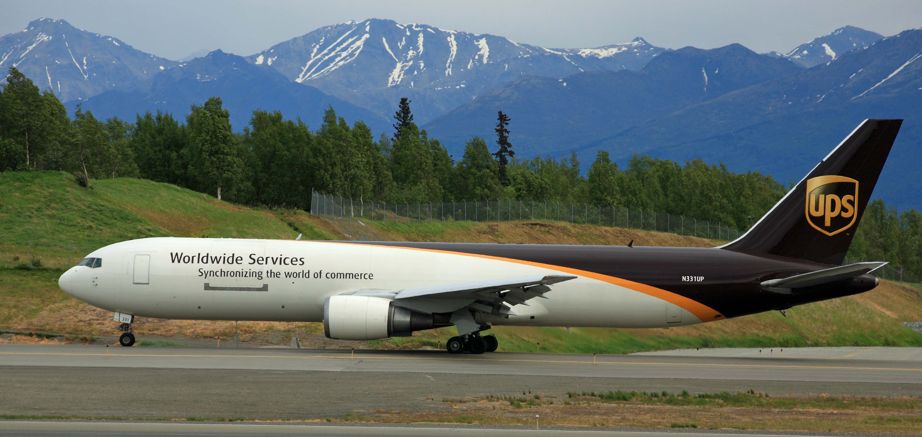 B767-300F UPS (N331UP) : I took this photo on a cloudy, cool day in June 2011 at Anchorage's Ted Stevens International Airport. I find it amazing at the amount of air cargo that passes through ANC - we truly are at a crossroads here.